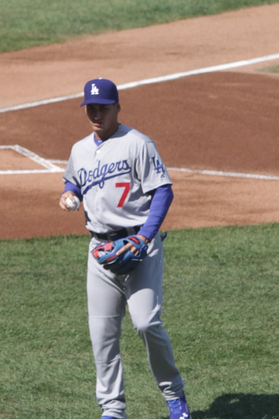 Alexander Guerrero for the 2014 Los Angeles Dodgers against the 2014 Chicago Cubs at Wrigley Field.